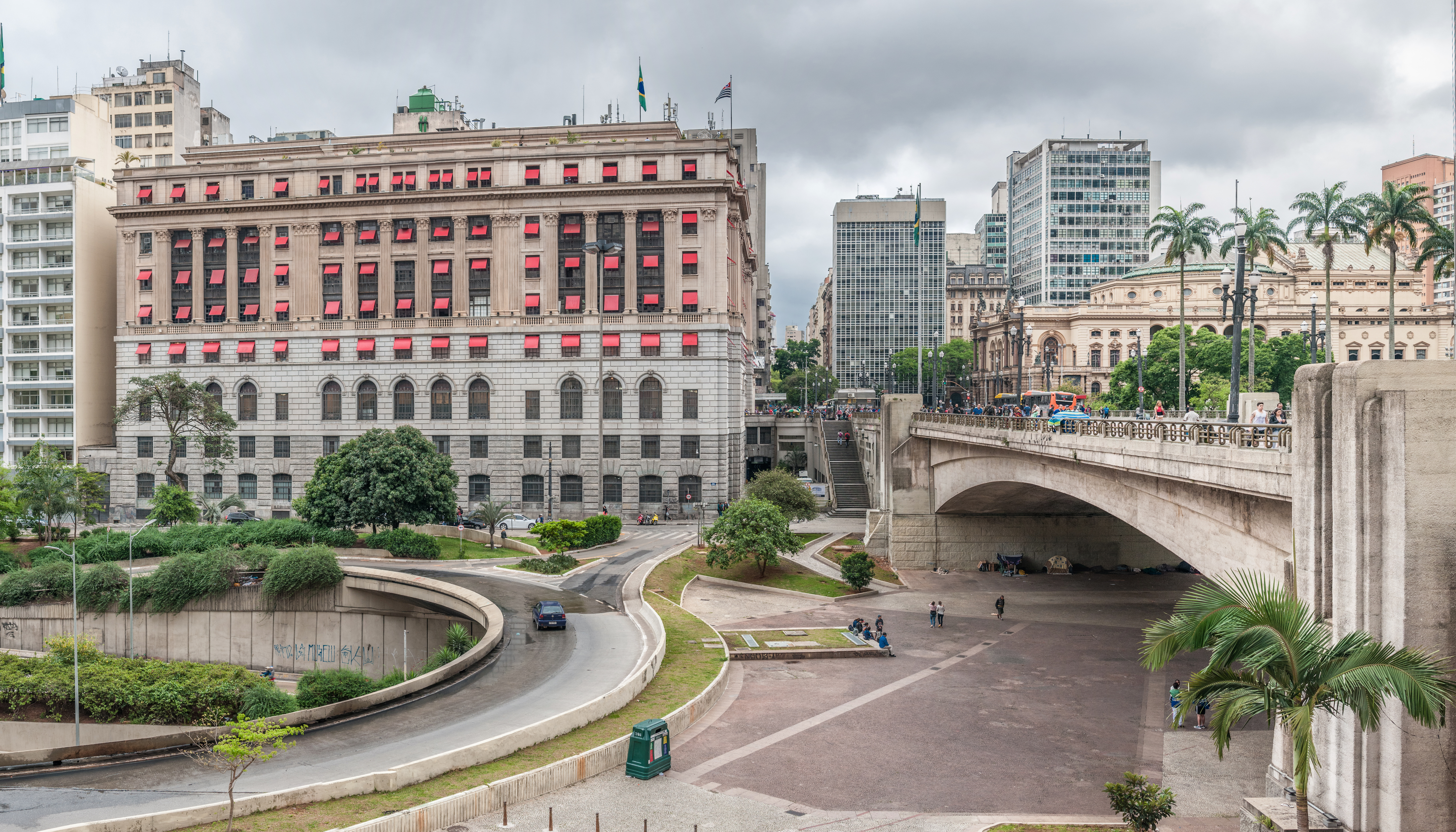 Viaduto do Chá